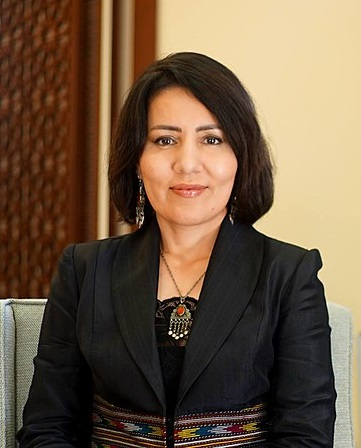 Akjemal Magtymova foto2